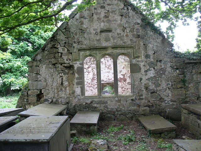 A bit crowded at the back